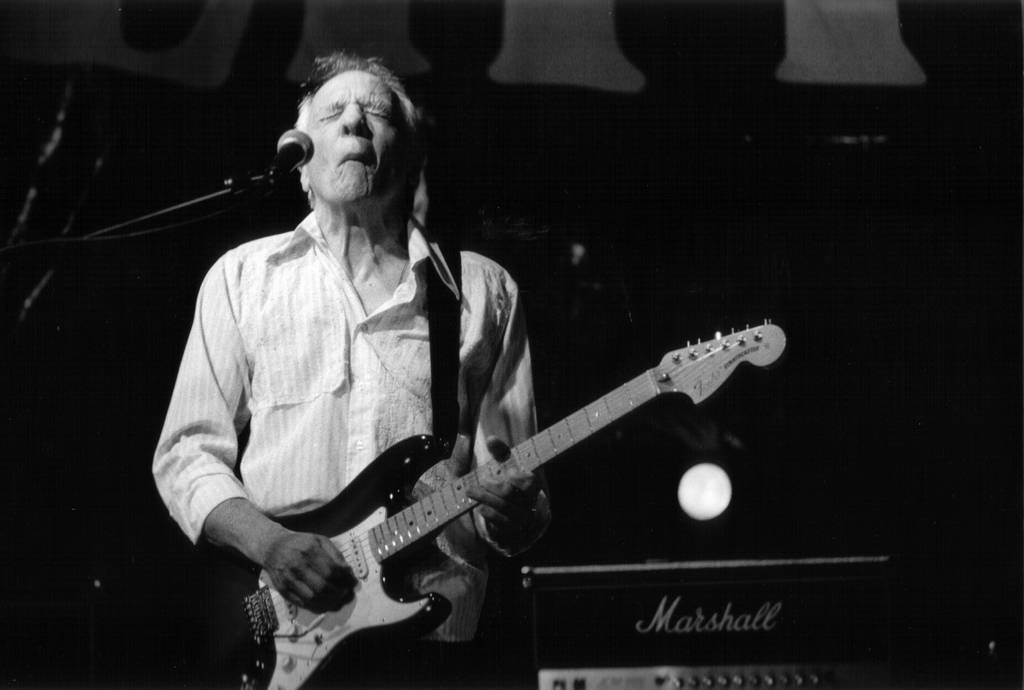 Robin Trower @ Liri Blues 2005